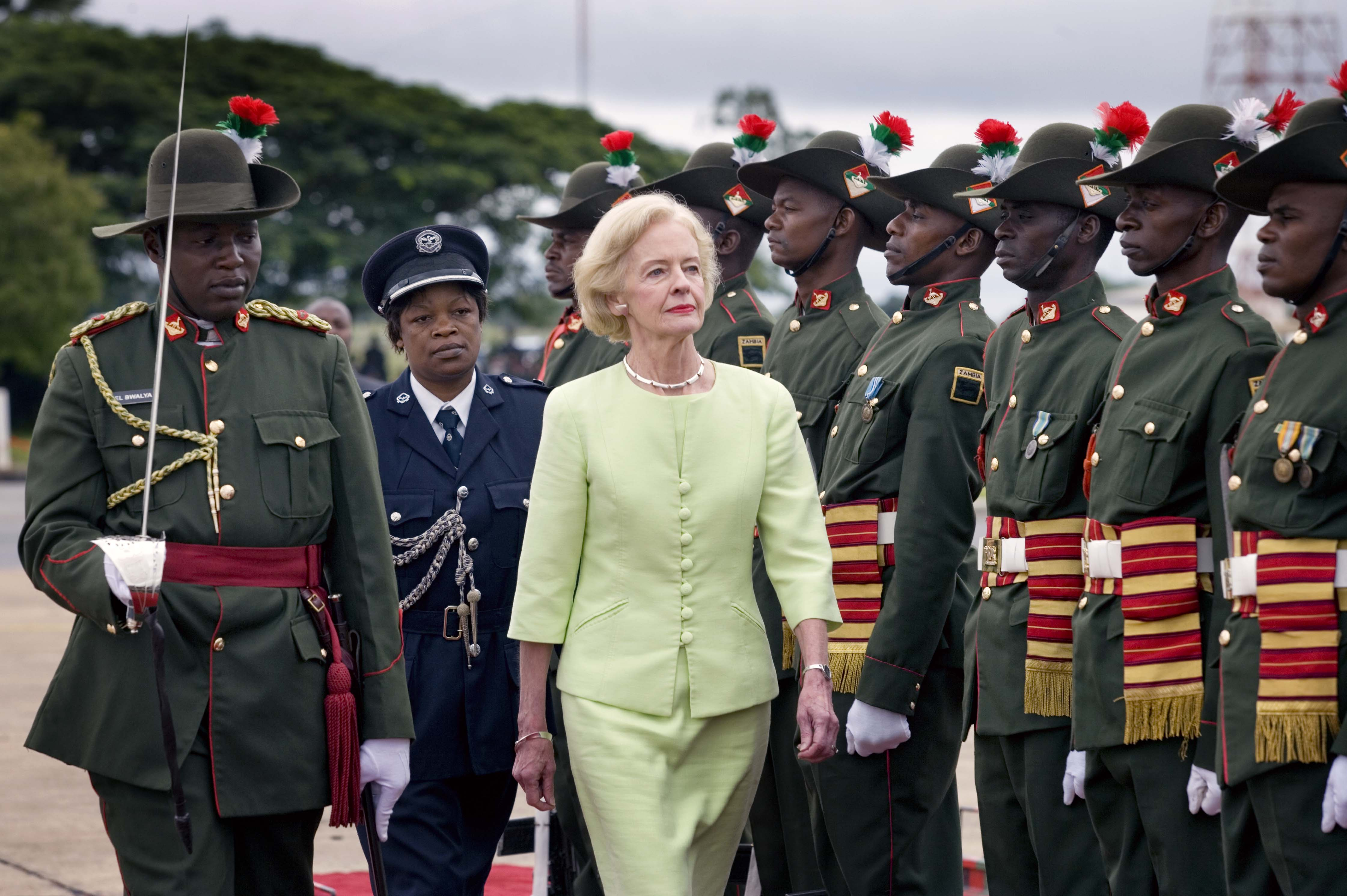 Governor-General of the Commonwealth of Australia, Ms Quentin Bryce AC CVOviews a guard of honour in Lusaka, Zambia during a visit to several African nations in March 2009.